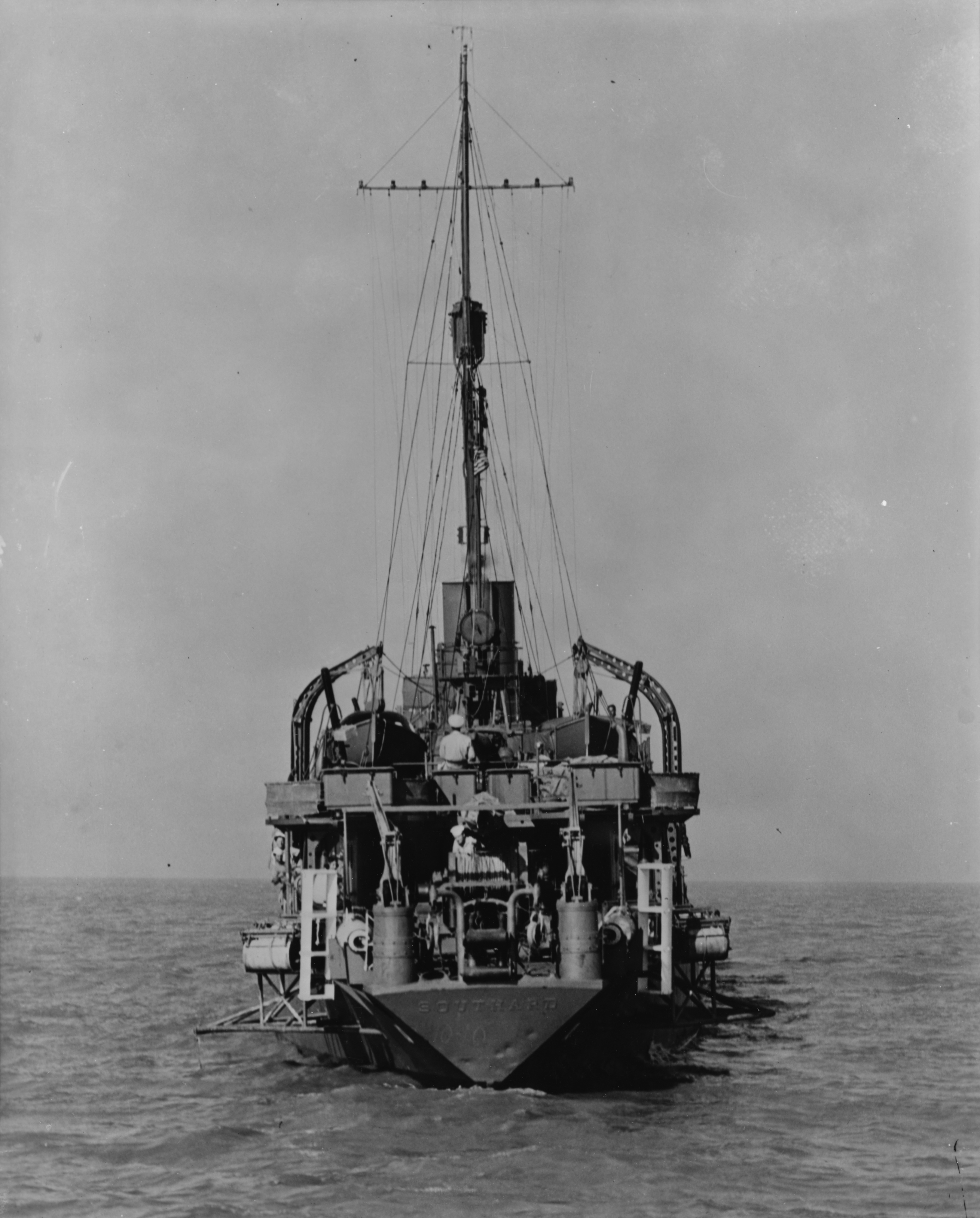 USS Southard (DMS-10) photographed from directly astern, off the Mare Island Navy Yard, California, 10 June 1942. The actual date of the photo may be 9 June 1942. Note details of her conversion to a fast minesweeper: squared-off triangular transom, with her name visible; sweep gear and davits on the stern; depth charge tracks angled out over the propeller guards; .50 caliber anti-aircraft machineguns at the rear of her after deckhouse. Photograph from the Bureau of Ships Collection in the U.S. National Archives.